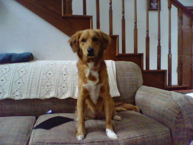 A picture of my dauchund-beagle-shepherd mix dog sitting. Useful for dog command's pages. Jimbo123454321 22:07, 19 May 2010 (UTC)